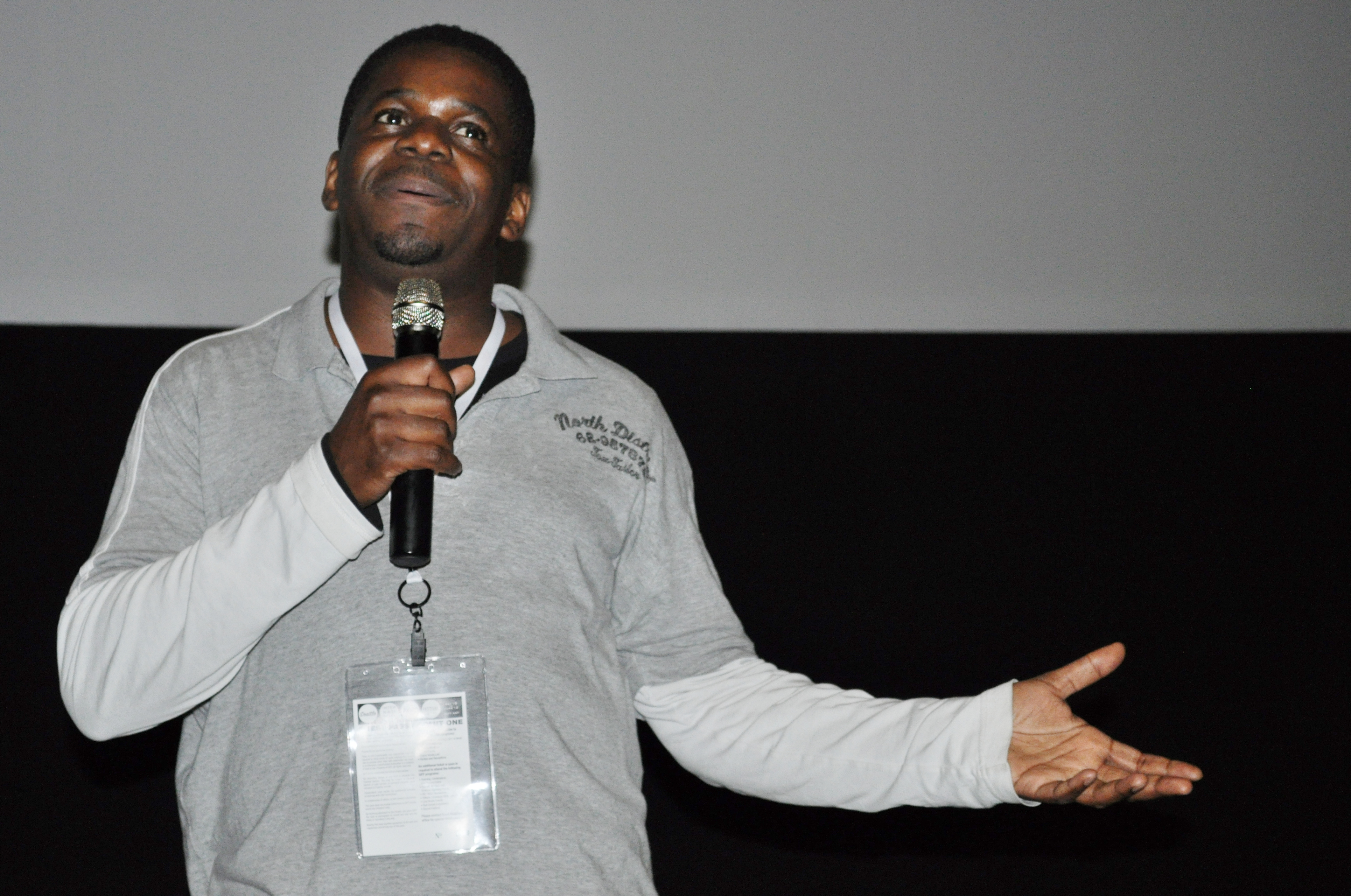 Congolese film director and screenwriter Djo Tunda Wa Munga speaking at the Seattle International Film Festival, Seattle, Washington.